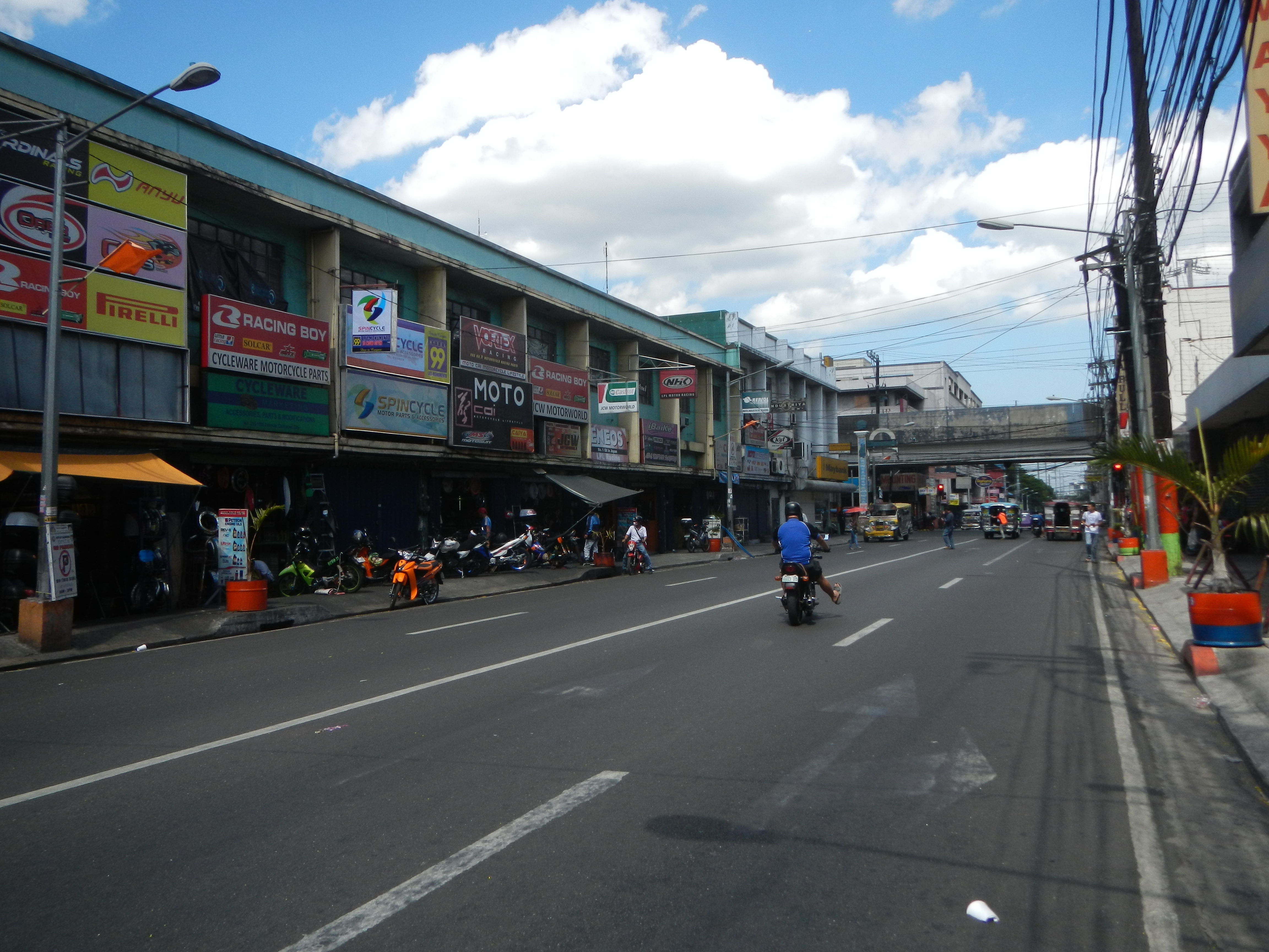 10th Avenue, St. Eugene De Mazenod Avenue (formerly 11th Avenue) & 12th Avenue (Caloocan City South) Legislative districts of Caloocan District 2, Barangays of Caloocan Barangay 91, Zone 8, District II, in front of Barangays 68 & 71, Zone 7, 12th Avenue West, District II, 12th Avenue West, Grace Park, 10th, 11th & 12th Avenues, (Caloocan City South), Caloocan City, Buildings in Caloocan City (along the List of roads in Metro Manila, along M. H. Del Pilar Street, 10th Avenue corner Rizal Avenue Extension, Grace Park, beside 11th Avenue, PLDT, Caloocan City Branch, St. Eugene De Mazenod Avenue (formerly 11th Avenue) (Grace Park) to Monumento LRT Station.